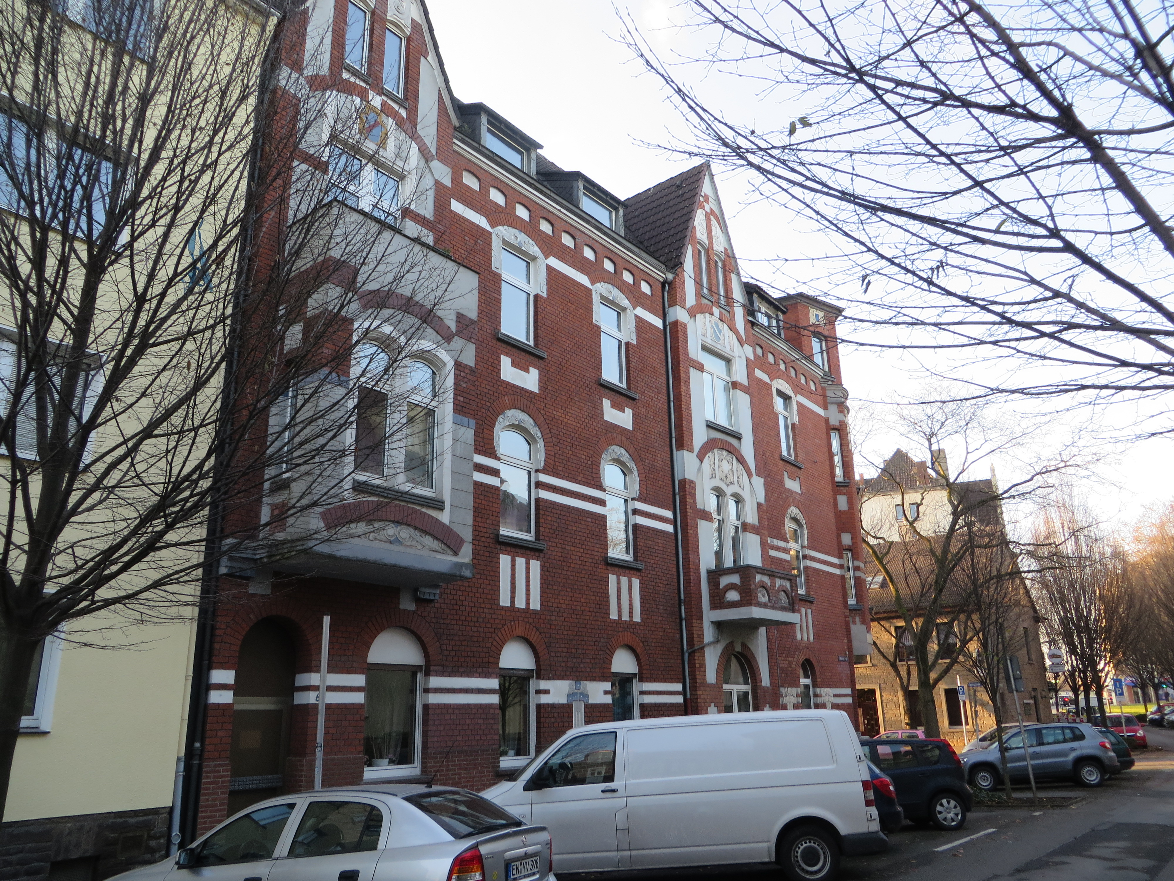 House Lessingstraße 6 in Witten, GermanyEsperanto: Domo Lessingstraße 6 en Witten, Germanio